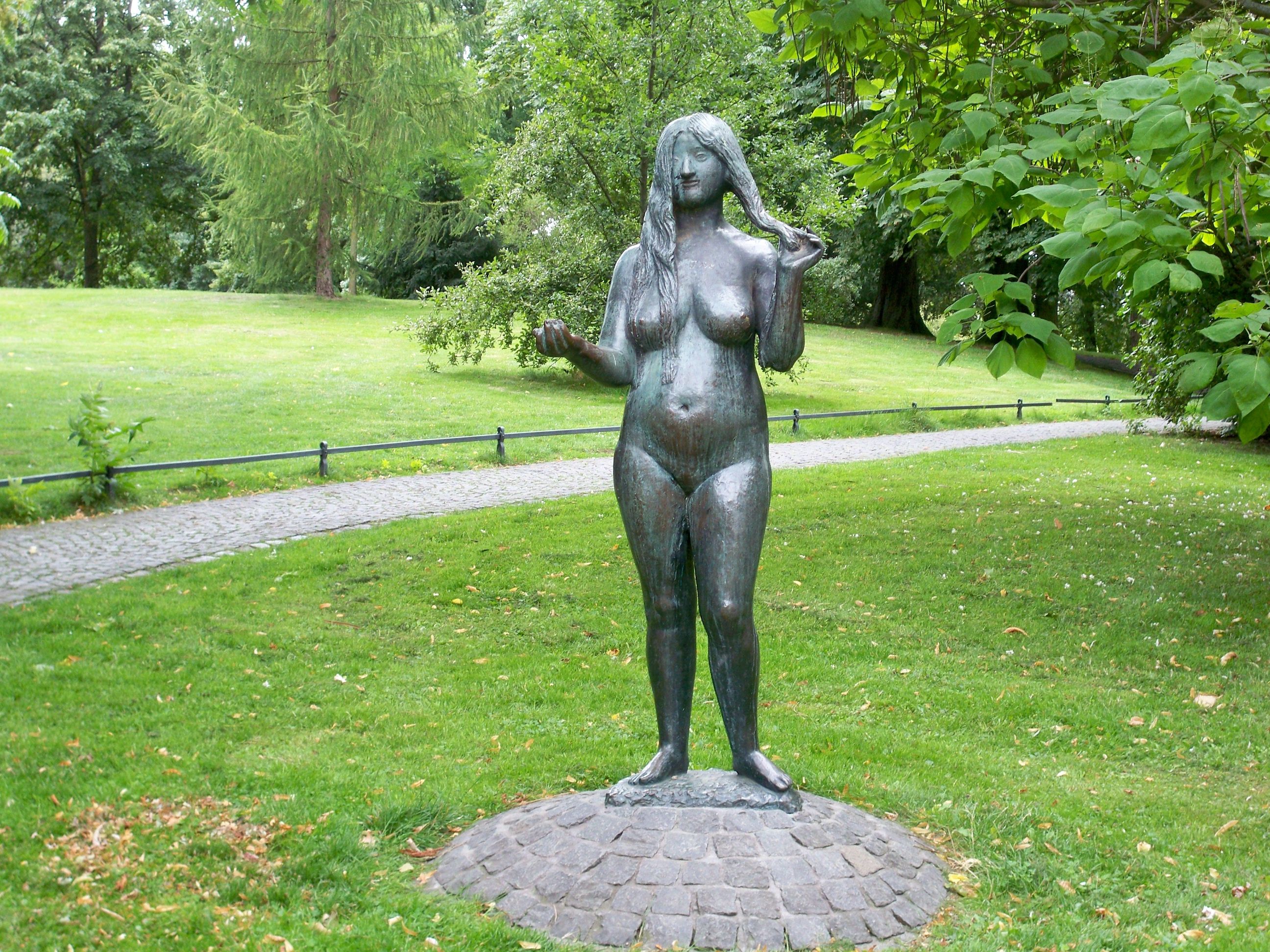 Brunswick, Germany, Museumpark with statue "Thüringer Venus" (Thuringian Venus) by Gerhard Marcks (1930)